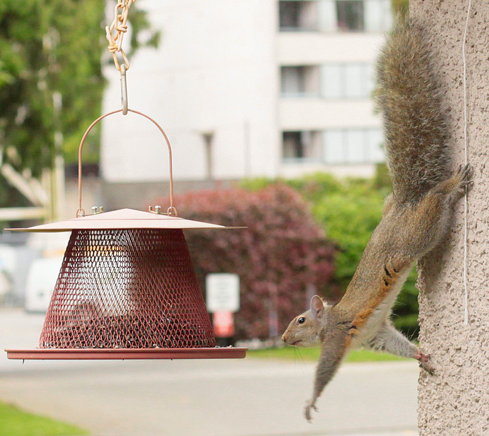 An eastern gray squirrel in British Columbia, Canada. It is reaching out for a bird feeder, while clinging upside down to a rough surface.